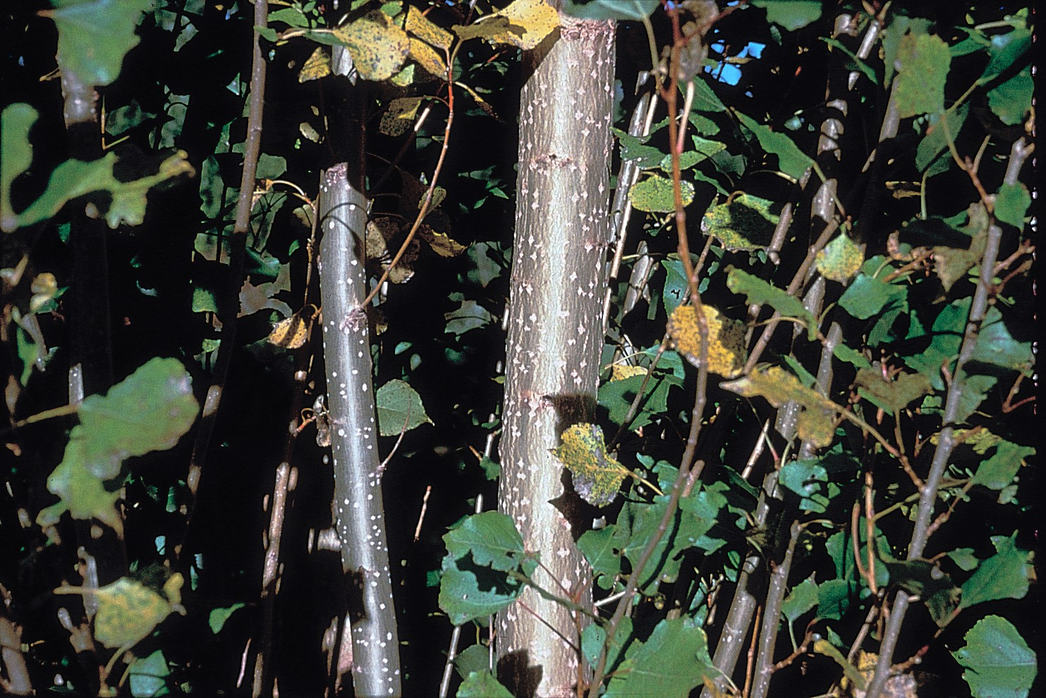 Populus × canadensis